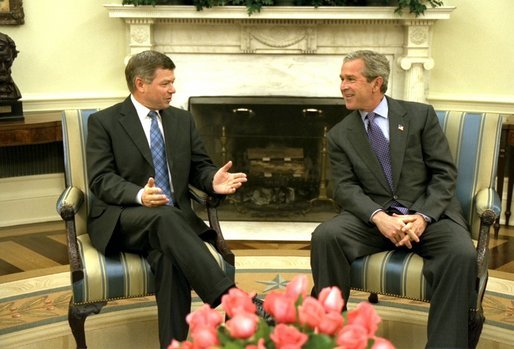 George W. Bush meets with Prime Minister Kjell Magne Bondevik of Norway in the Oval Office Friday, May 16, 2003.